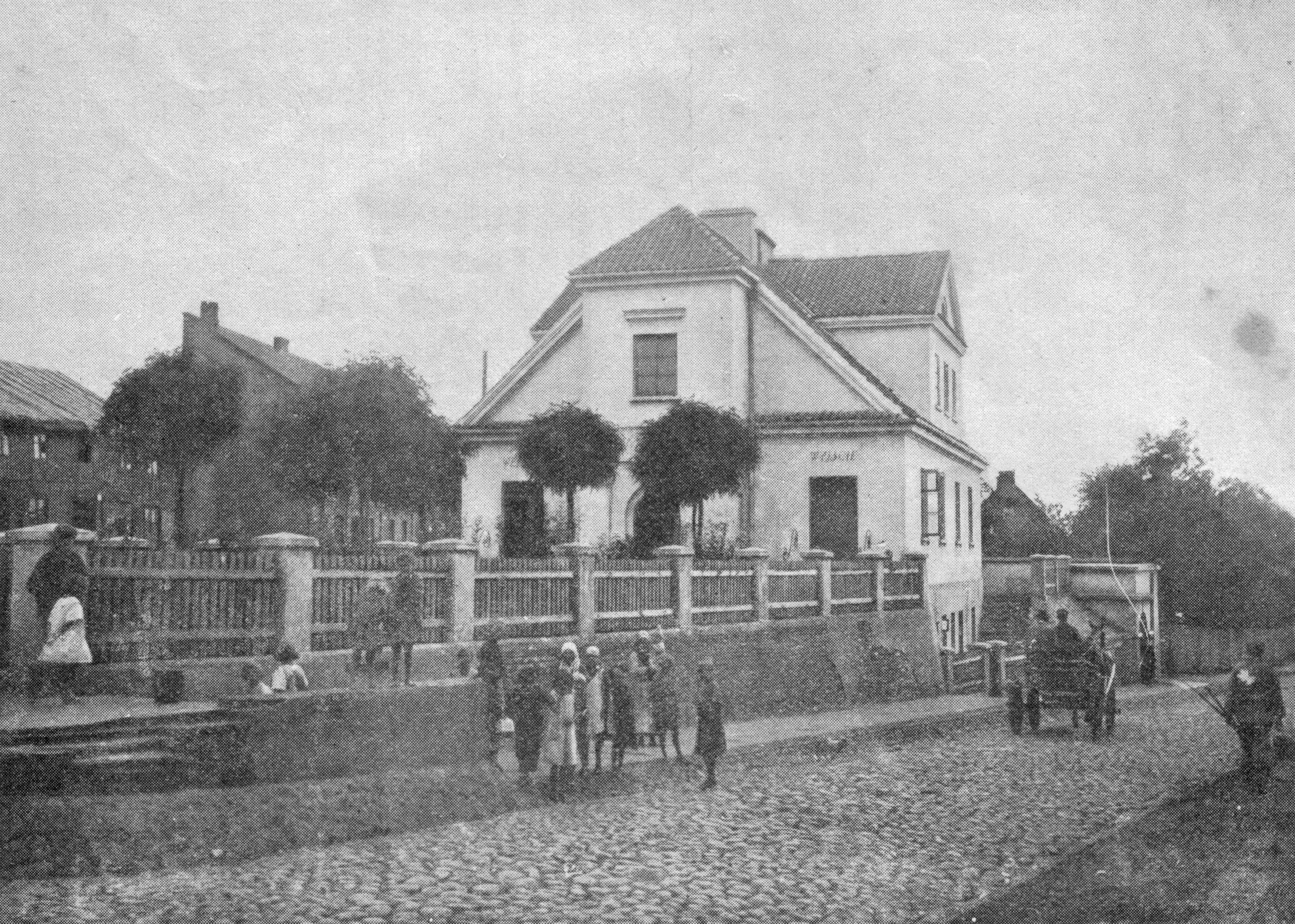 Public Bath Number 1 in Włocławek, Poland